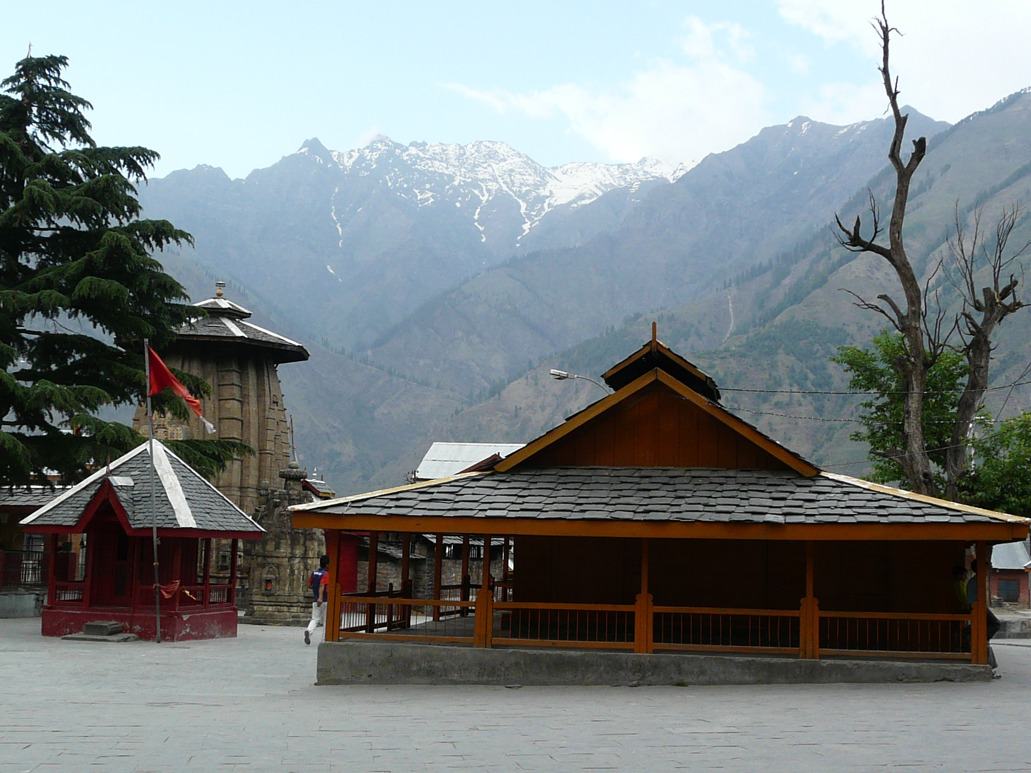 Narsimha temple in the background Chaurasi Temple Complex, Bharmour, Himachal Pradesh, India